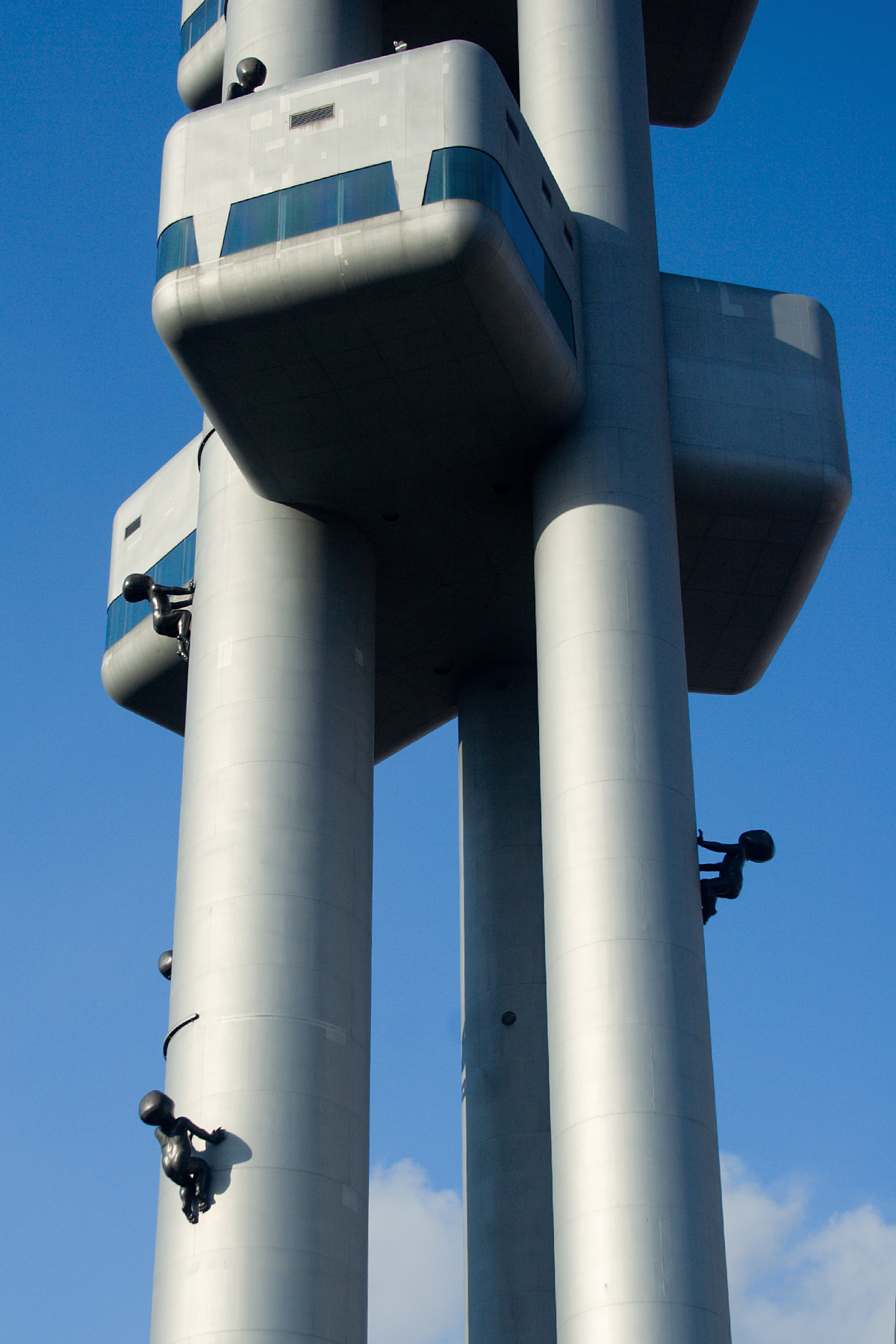 The crawling babies sculptures by David Černý on Žižkov Television Tower, Prague, Czech Republic